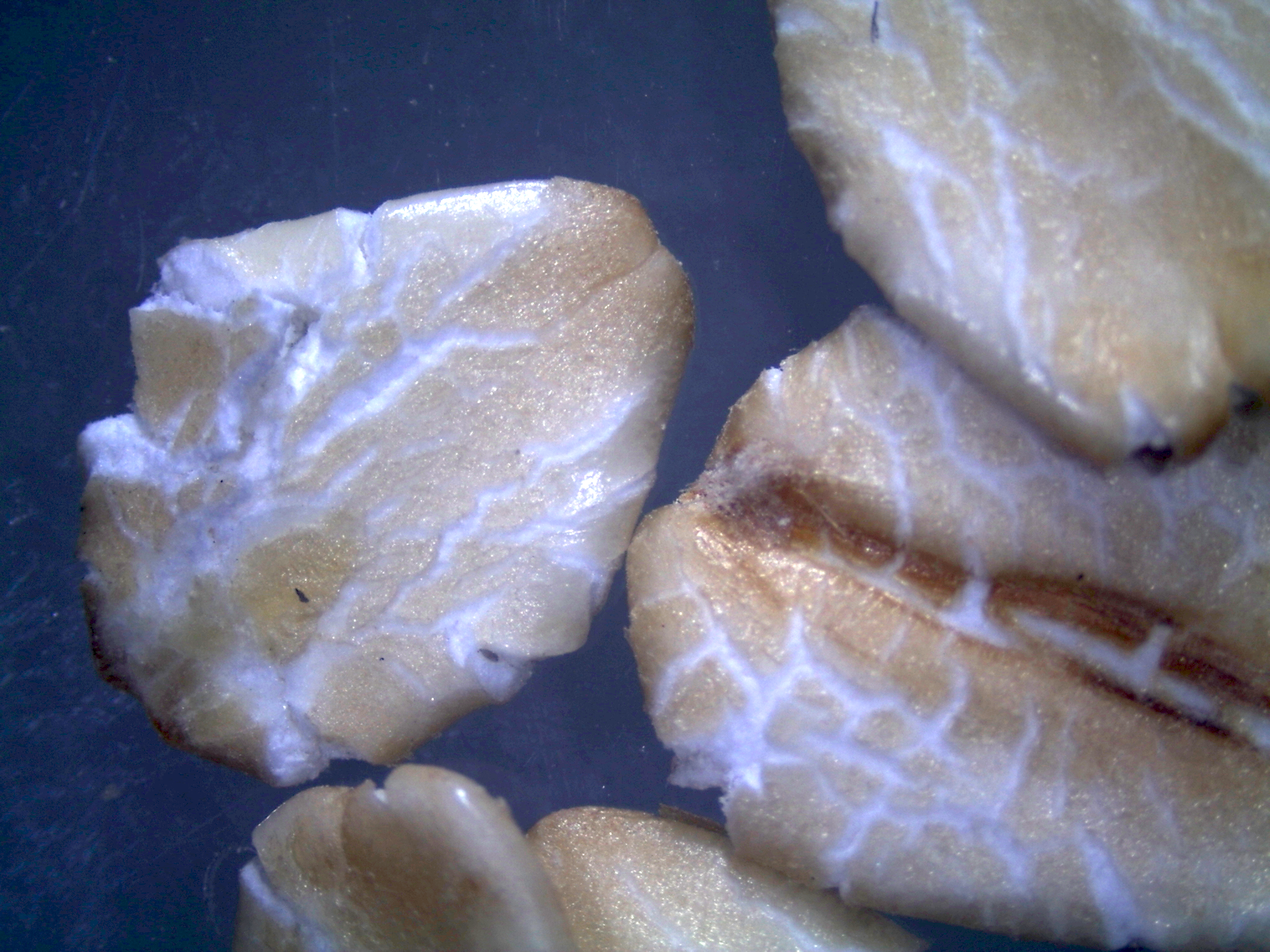 rolled oats viewed through a Leica microscope camera